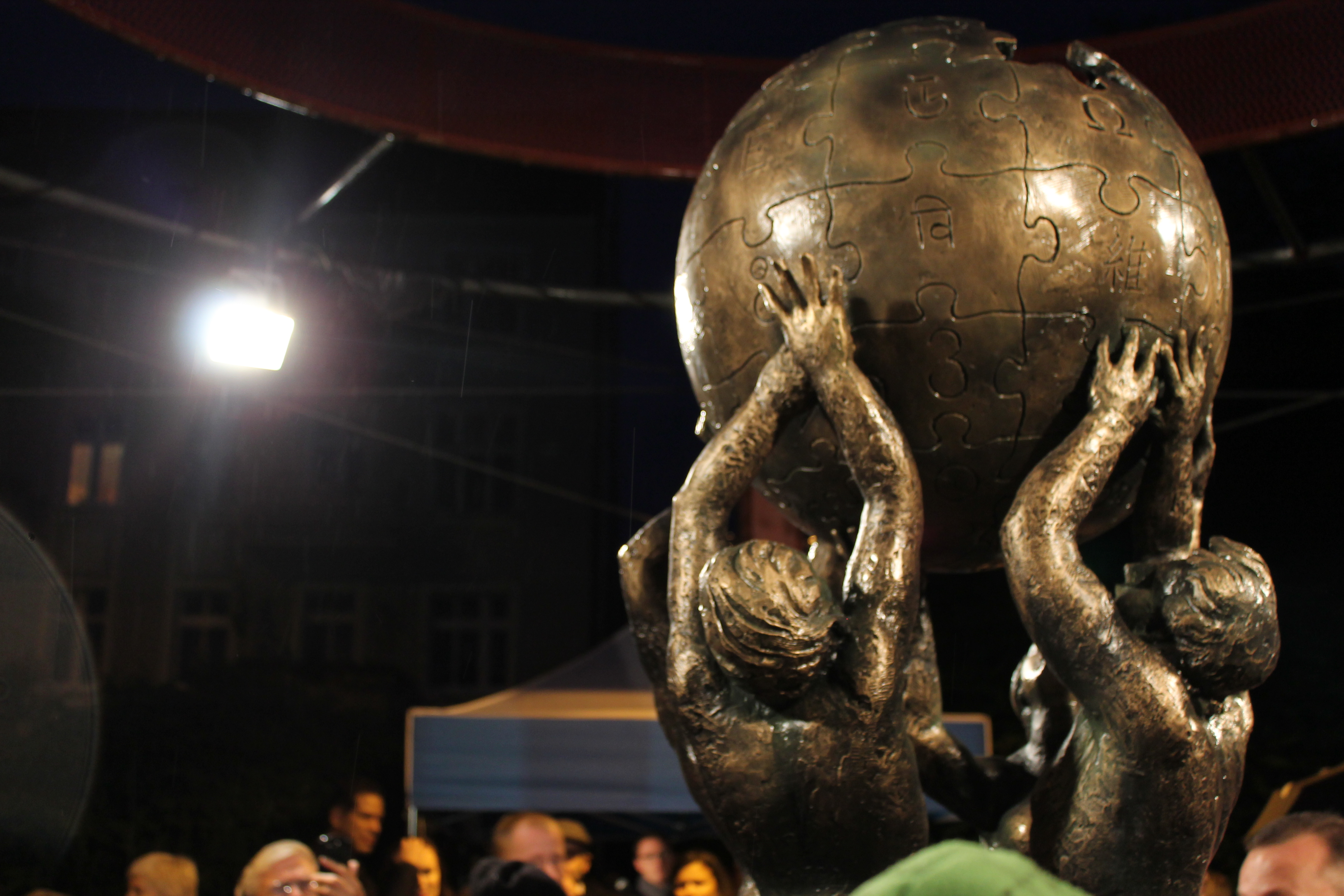 The unveiling of the Wikipedia monument